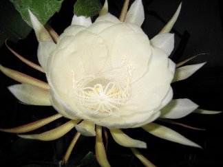 Epiphyllum oxypetalum.(Epiphyllum species)